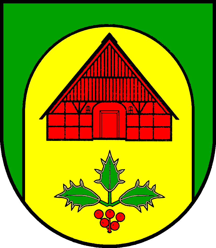 Coat of arms of the municipality Borstel in Schleswig-Holstein, Germany.